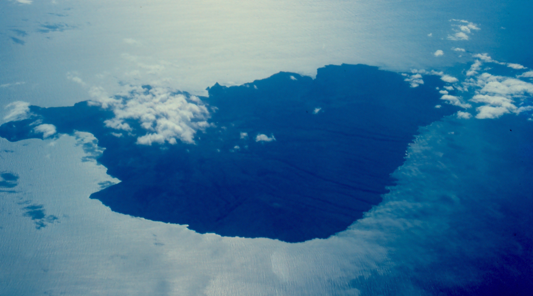 Kahoolawe from the air while flying over Alalakeiki Channel. Kanapou Bay is at center left in photo. Hawaii, USA